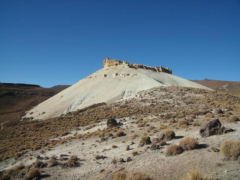 Sedimentites of Huitera fm (Eocene), Rio Negro, Argentina.